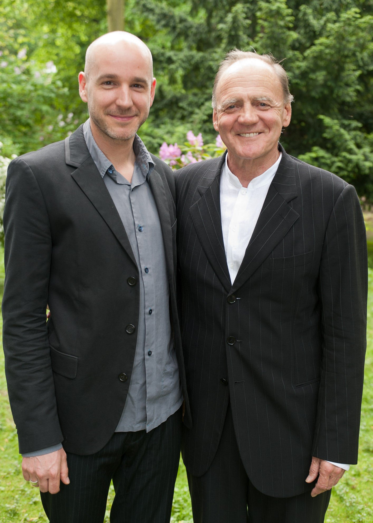 Paul Herwig und Bruno Ganz, Theatertreffen 2010. Berlin, 24/05/2010 Lizenziert unter einer Creative Commons Namensnennung - Nicht kommerziell - Keine Bearbeitungen 4.0 International Lizenz.